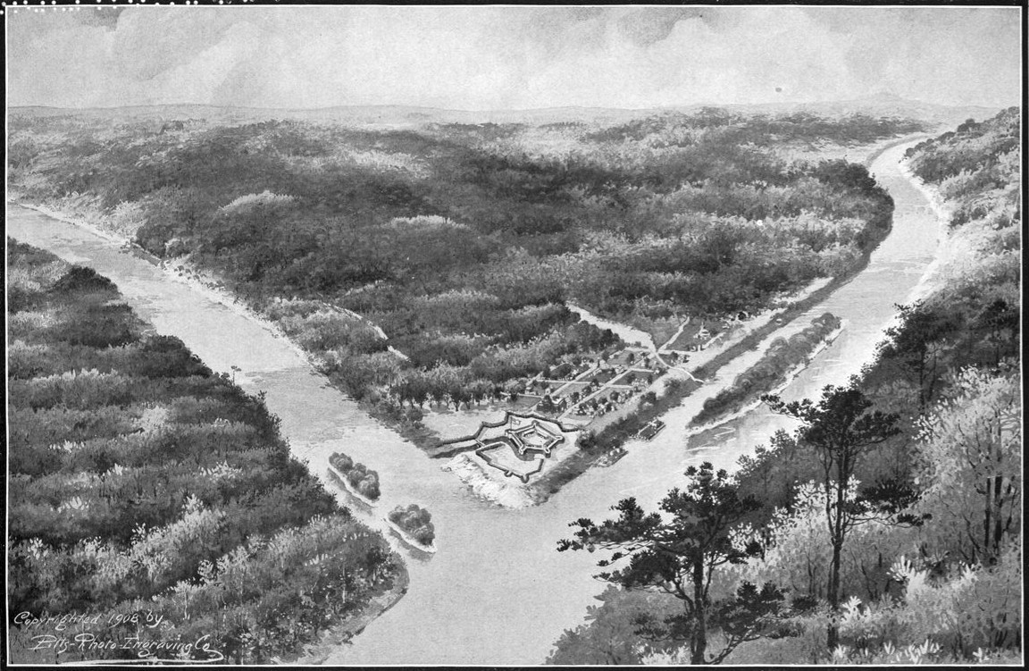 Fort Pitt, Pennsylvania, 1759. Captioned: "Fort Pitt and Pittsburgh in 1759, one year after permanent occupation by the English"